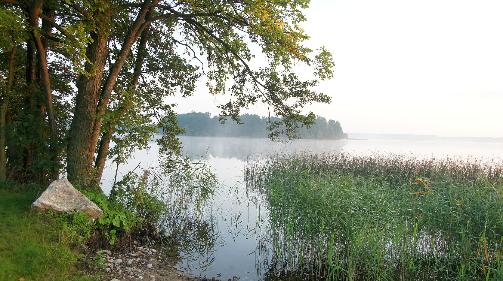 Łaśmiady Lake